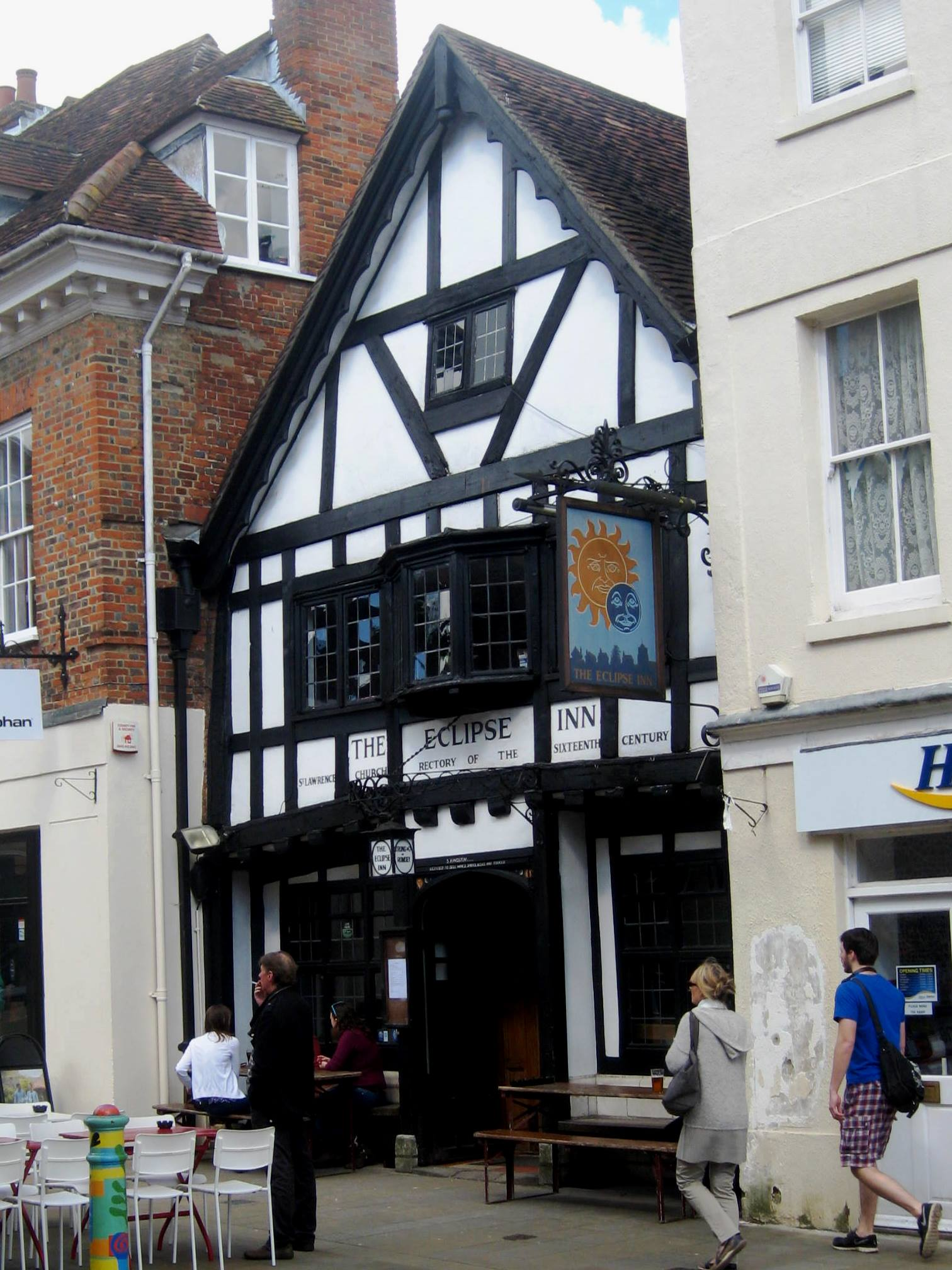 Photo of the Eclipse Inn, Winchester, where Alice Lisle spent the night before her execution in 1685